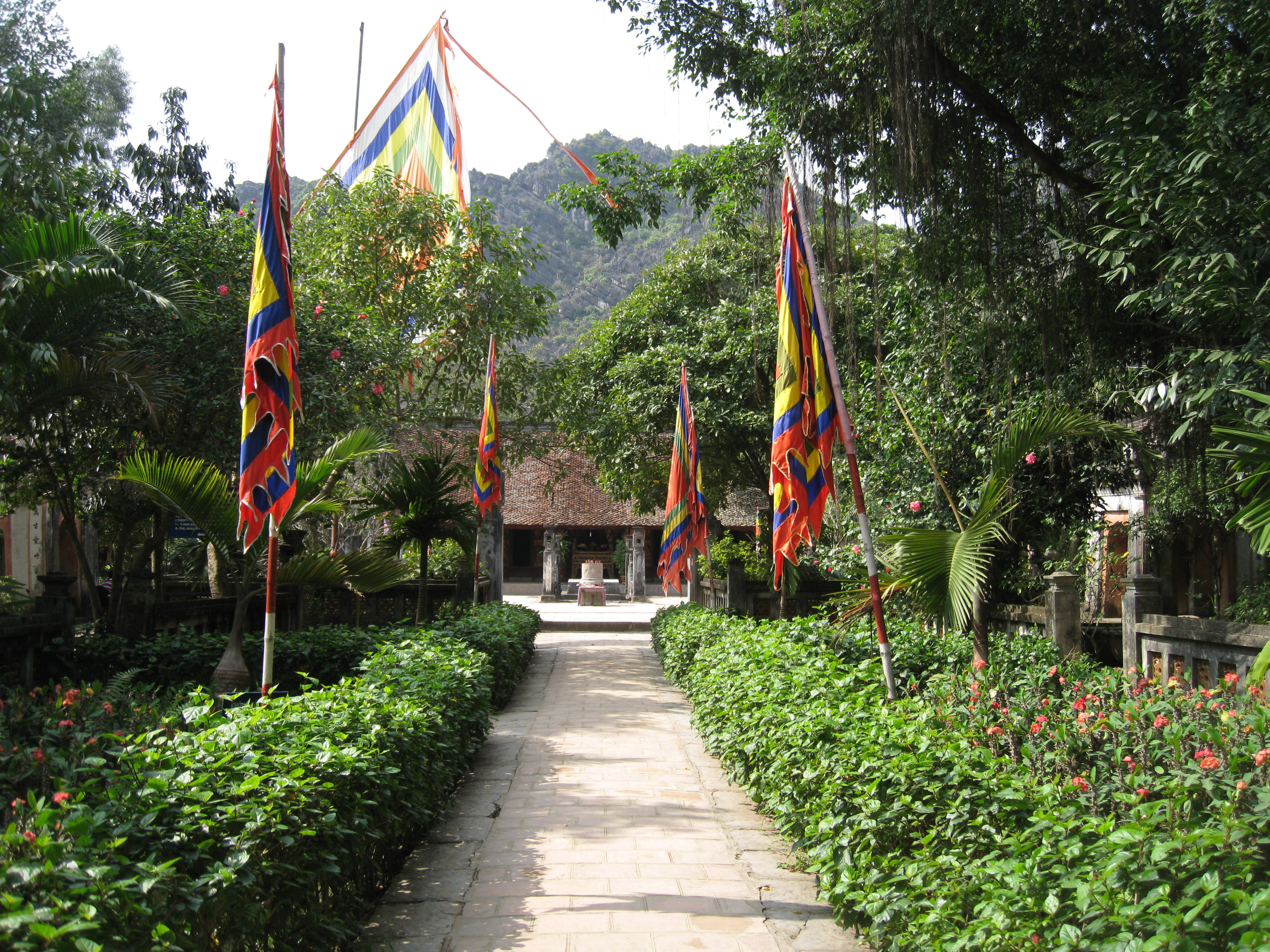 Lê Đại Hành Temple (Hoa Lư).